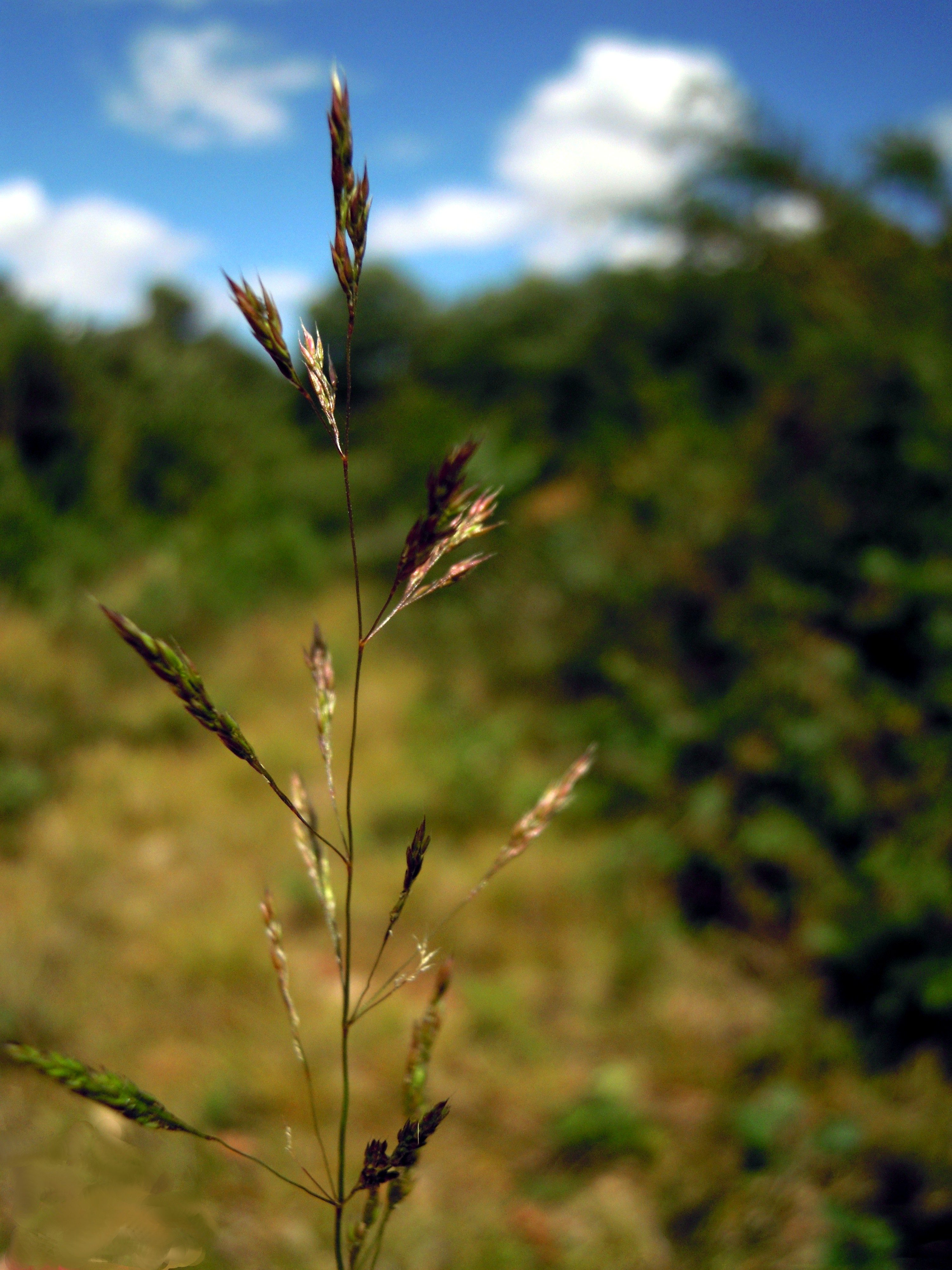 Agrostis vinealis inflorescens